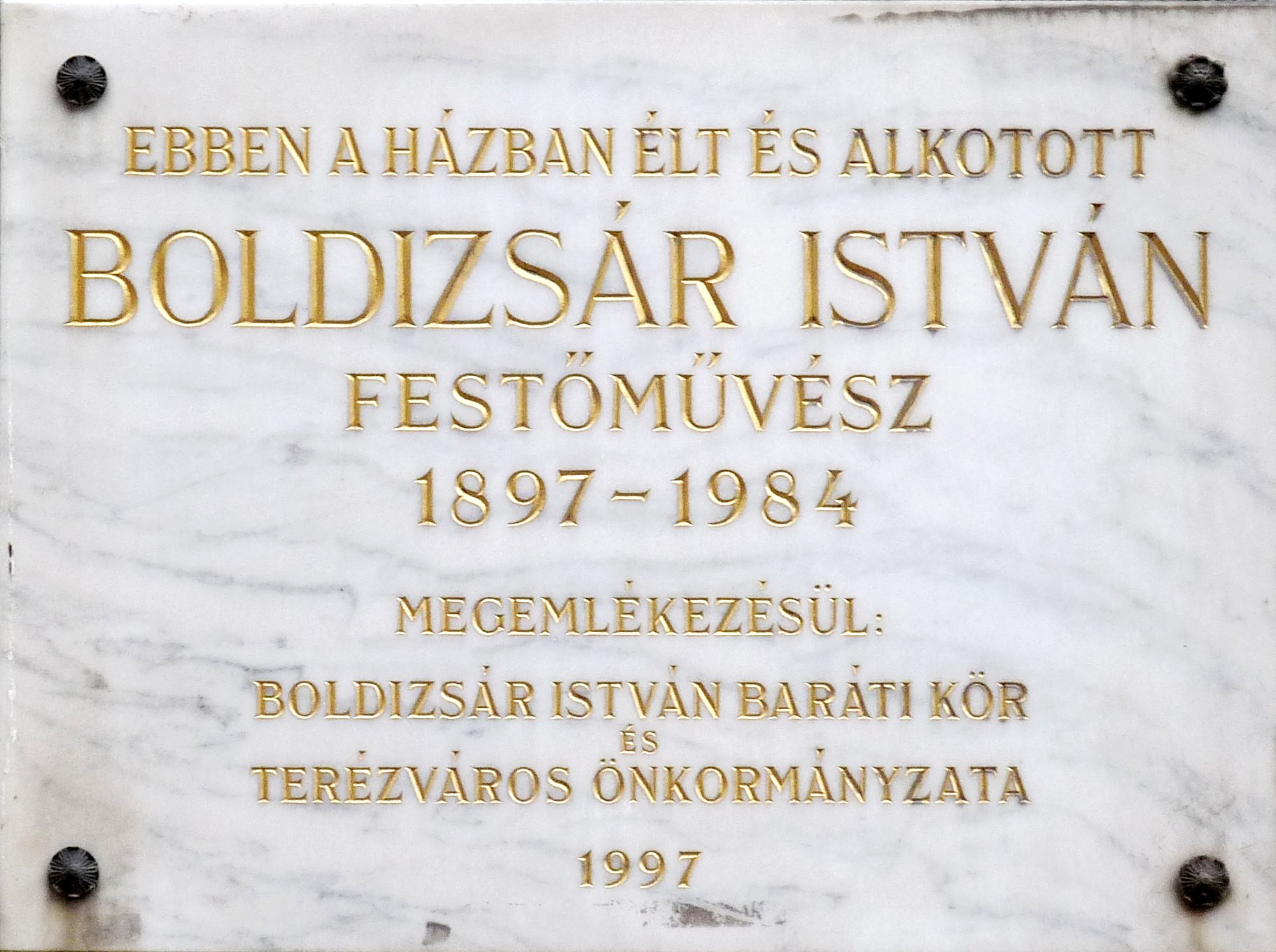 István Boldizsár (painter) commemorative plaque in Budapest District VI, Nagymező Street No 8.